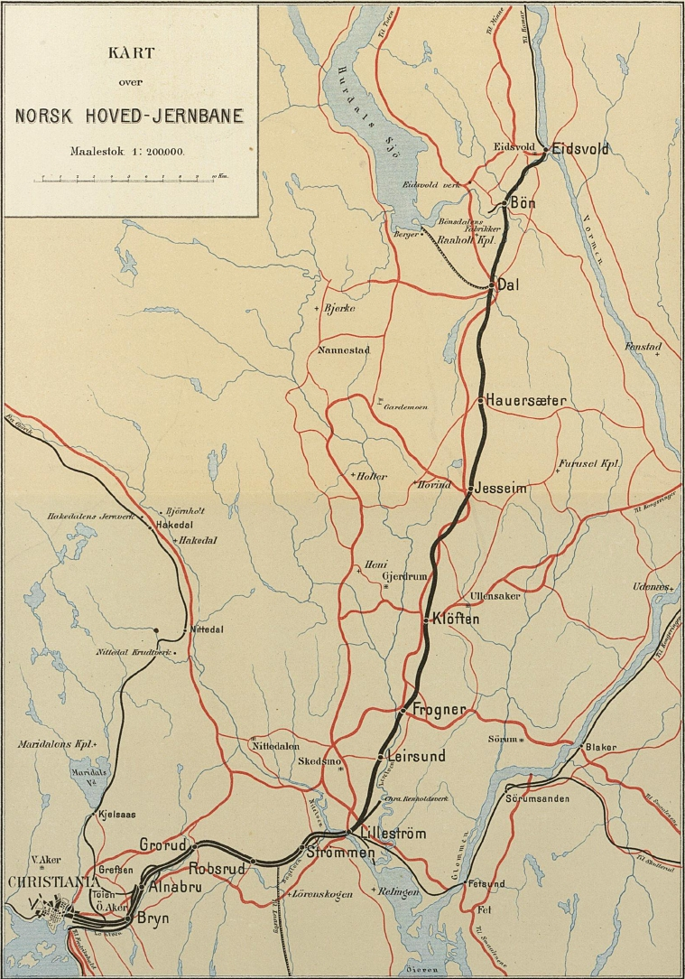 Map of the first railway in Norway.